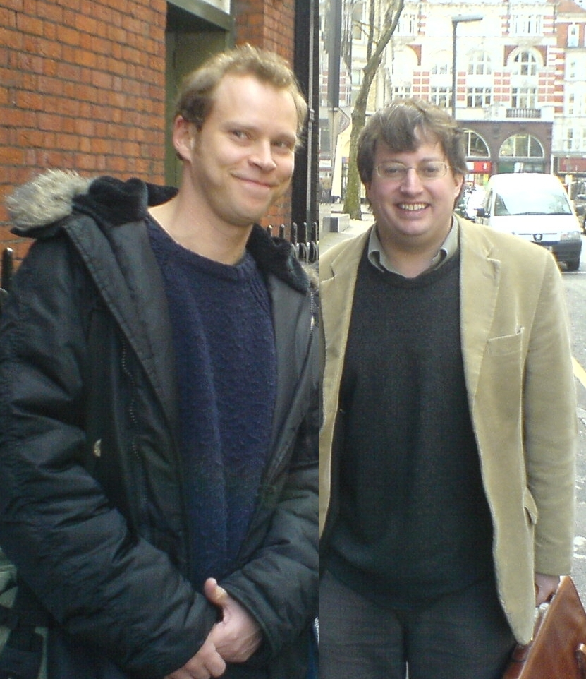 Robert Webb and David Mitchell, cropped to show only Webb & Mitchell